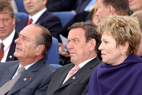 ST PETERSBURG. French President Jacques Chirac, German Federal Chancellor Gerhard Schroeder (centre) and Presidential Envoy to the Northwestern Federal District Valentina Matviyenko at the opening of the Water Festival on the Neva River.